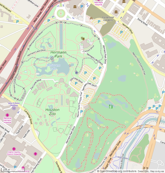 This map of Houston Hermann Park was created from OpenStreetMap project data, collected by the community. The image should remain clear of any additional edits. To annotate the map for an article, use the Infobox or Location Map template and reference the map using map module Houston Hermann Park. This map may be incomplete, and may contain errors. Submit corrections to the below source link. Do not rely solely on the map for navigation. Steven Driskell Image for Map Module : Houston Hermann Park Latitude north = 29.72264 Latitude south = 29.70900 Longitude west = -95.39650 Longitude east = -95.38152 Map symbology